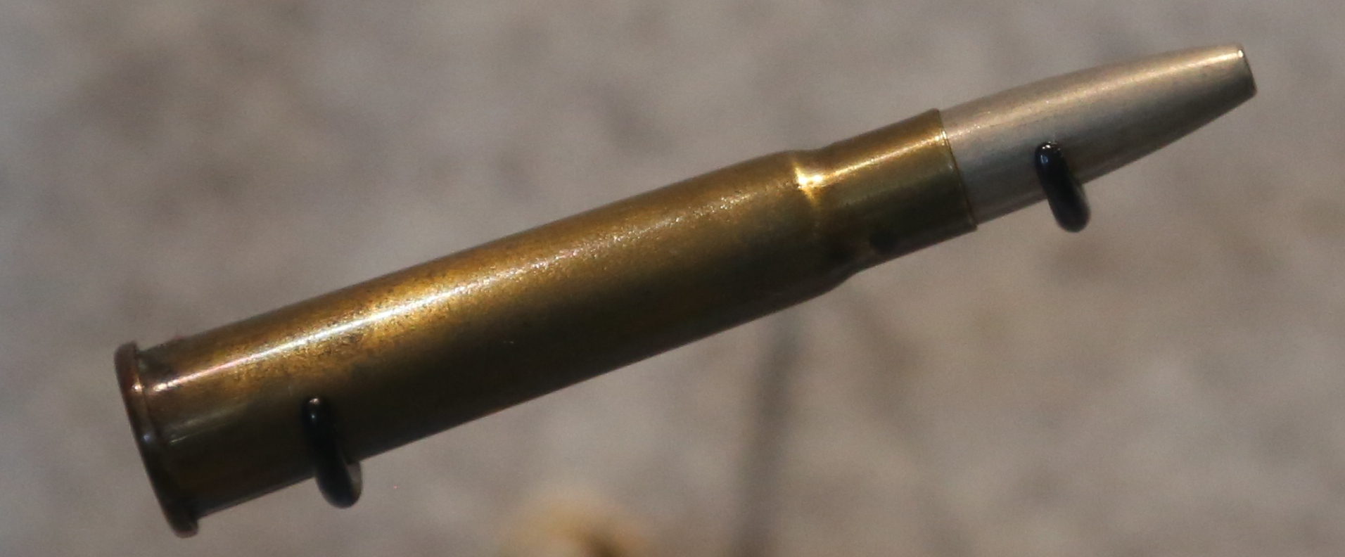 Photo of a WW1 Buckingham Incendiary Bullet